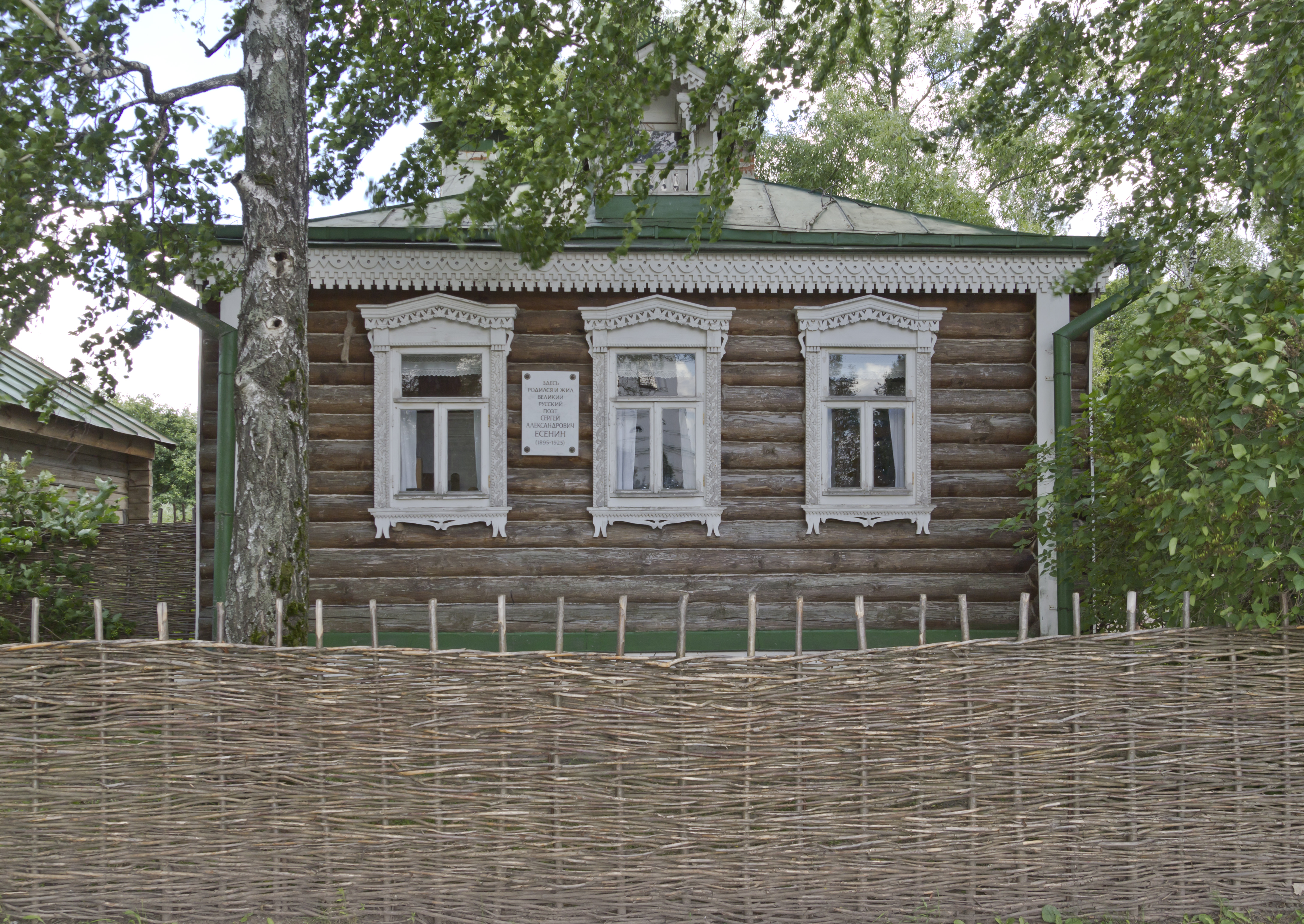 Museum of poet Sergei Yesenin in Konstantinovo village, Ryazan Oblast, Russia – native house of Yesenin